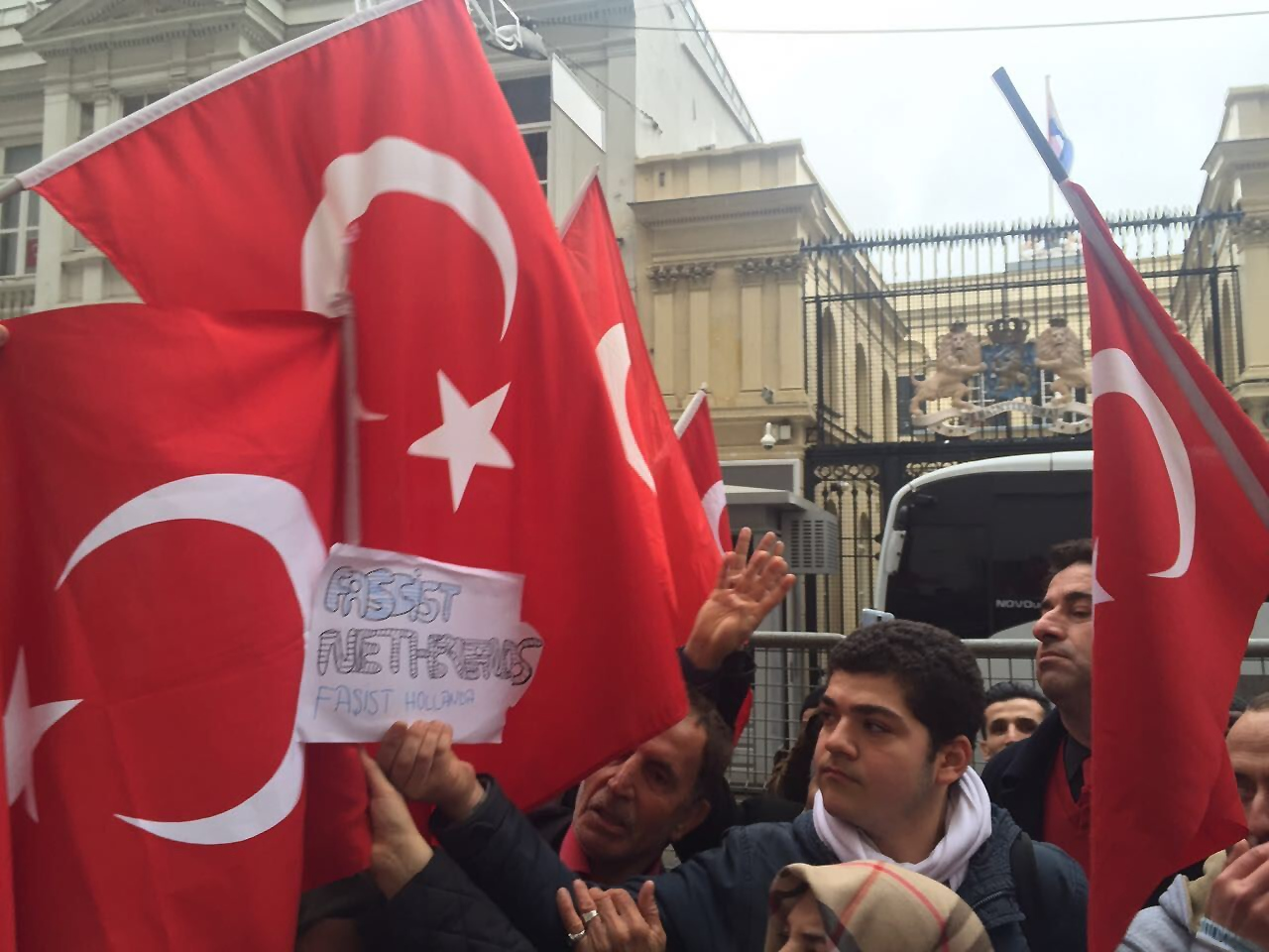 Turkish people protesting the Netherlands in İstiklal Avenue because of 2017 Dutch–Turkish diplomatic incident.